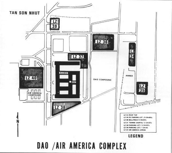 9th MAB map of the DAO Compound and Air America Compound showing Landing Zones